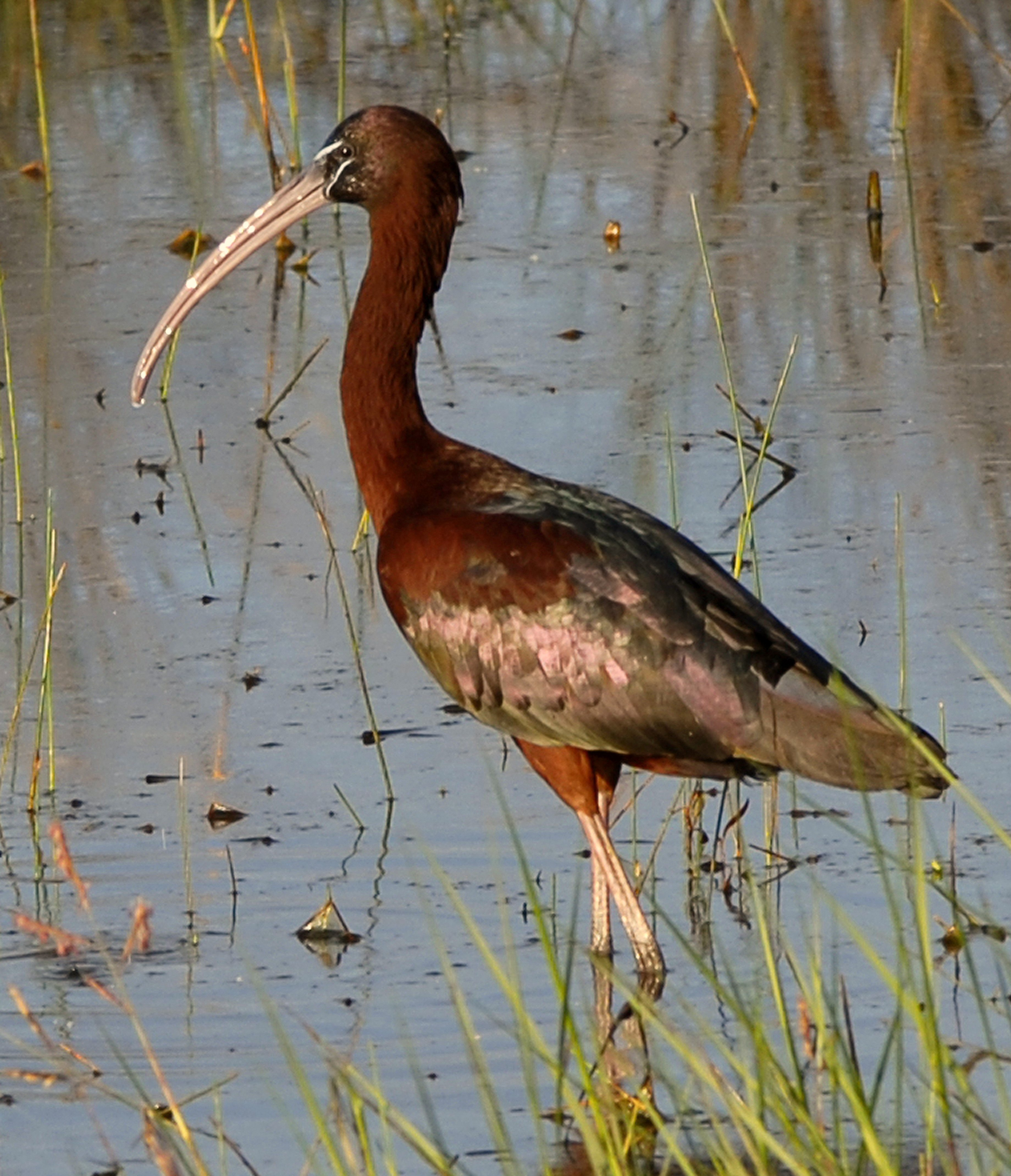 Glossy Ibis (Plegadis falcinellus) taken at just a little past sunrise at Lake Woodruff National Wildlife Refuge located in Central Florida. Nikon D200 Tamron 70-200mm